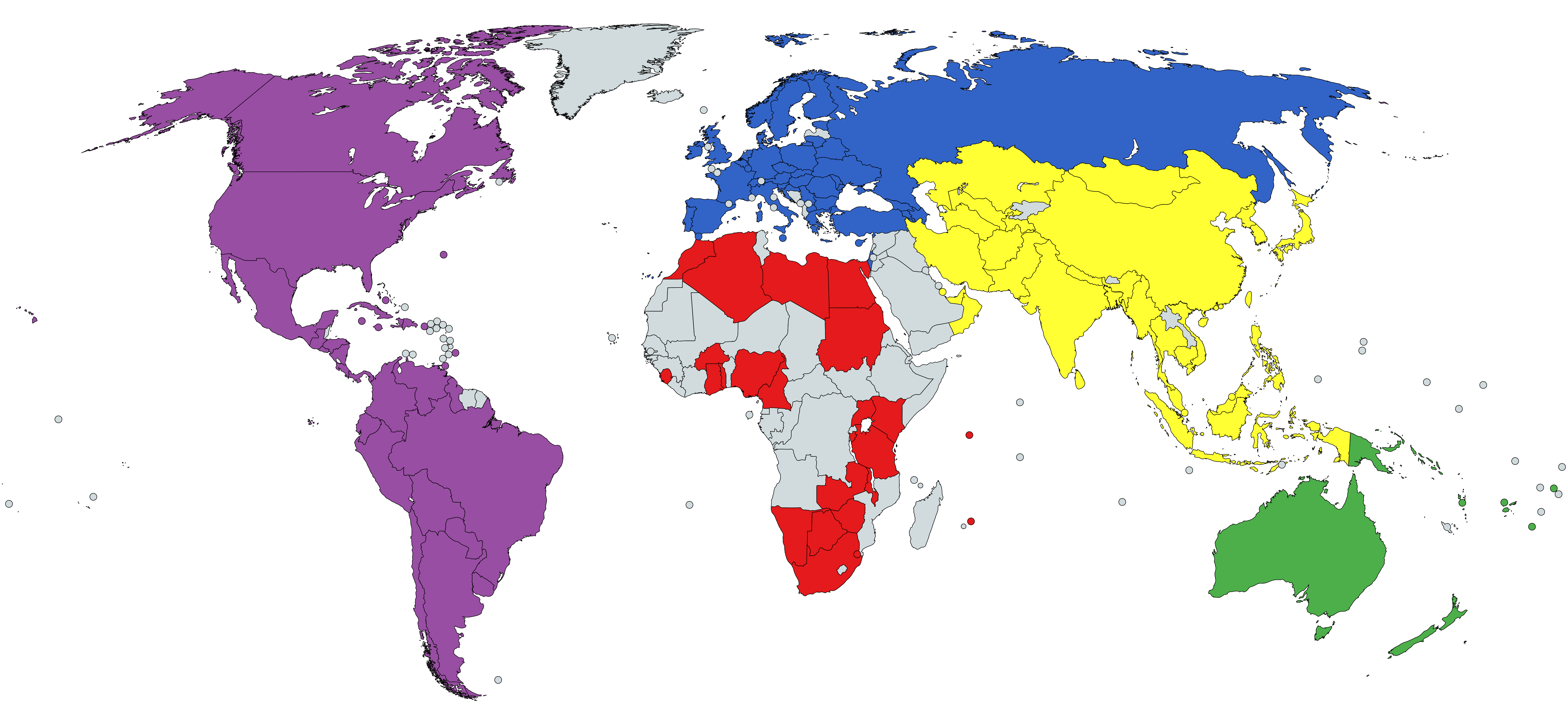 Countries in the International Hockey Federation, as listed in the wikipedia article.